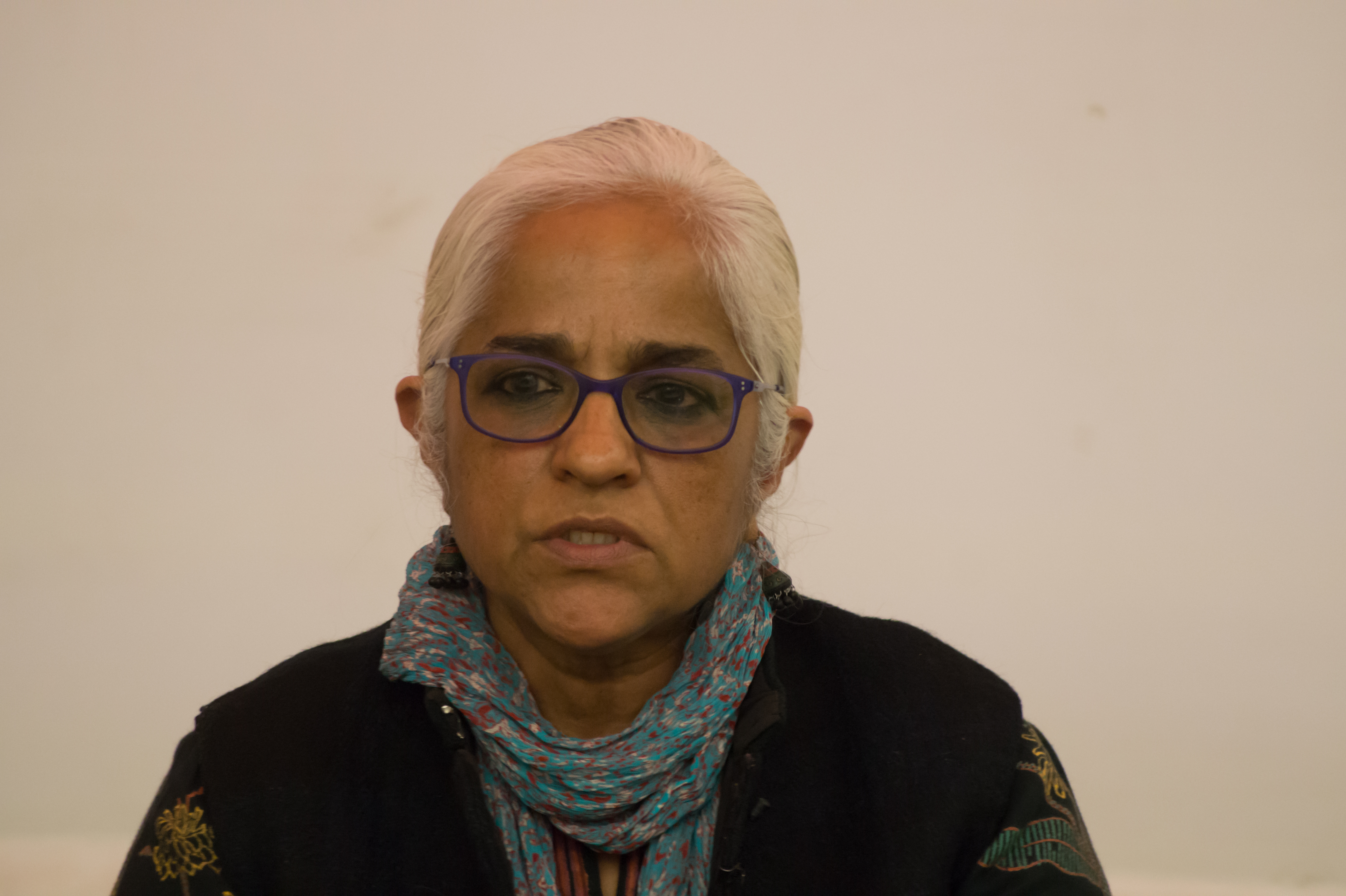 Maya Rao at Delhi Queer Fest 2016.